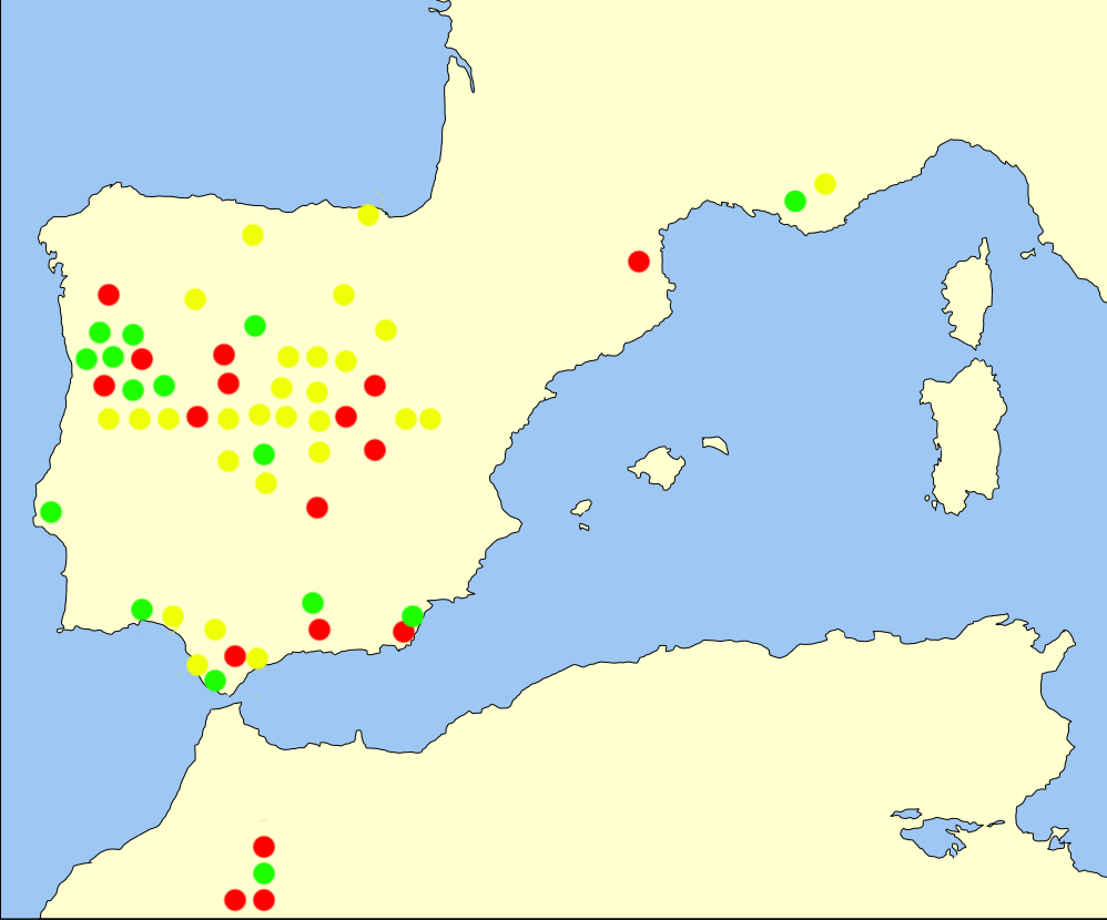 Distribution map of Xylocopa cantabrita Legend : red = data date inferior to 1949 ; yellow = data date superior or equal to 1950 and inferior to 1989 ; green = data date superior or equal to 1990 Derivated work from : Michael Terzo et Pierre Rasmont, « Xylocopa cantabrita Lepeletier en France (Hymenoptera, Apoidea) », Bulletin de la société entomologique de France, vol. 108, 2003, p. 441-445 [1], F. Javier Ortiz, « An update on the Ibero-balearic species of Xylocopa LATREILLE, 1802, with new data in Morocco (Hymenoptera, Anthophoridae) », Entomofauna, vol. 18, 1997, p. 237-244 [2], F.J. Ortiz-Sanchez et M. Terzo, « Sobre los Xylocopini ibericos, con la primera cita de Xylocopa valga Gerstacker 1872 para la fauna portuguesa y datos autoecolögicos para Xylocopa cantabrita Lepeletier 1841 (Hymenoptera, Apoidea, Xylocopinae) », Linzer biologische Beiträge, vol. 36, 2004, p. 309-313 [3], Benoist R. 1950. Notes sur quelques Apidae [Hym.] paléarctiques. Bulletin de la Société Entomologique de France n°7 : 88-102